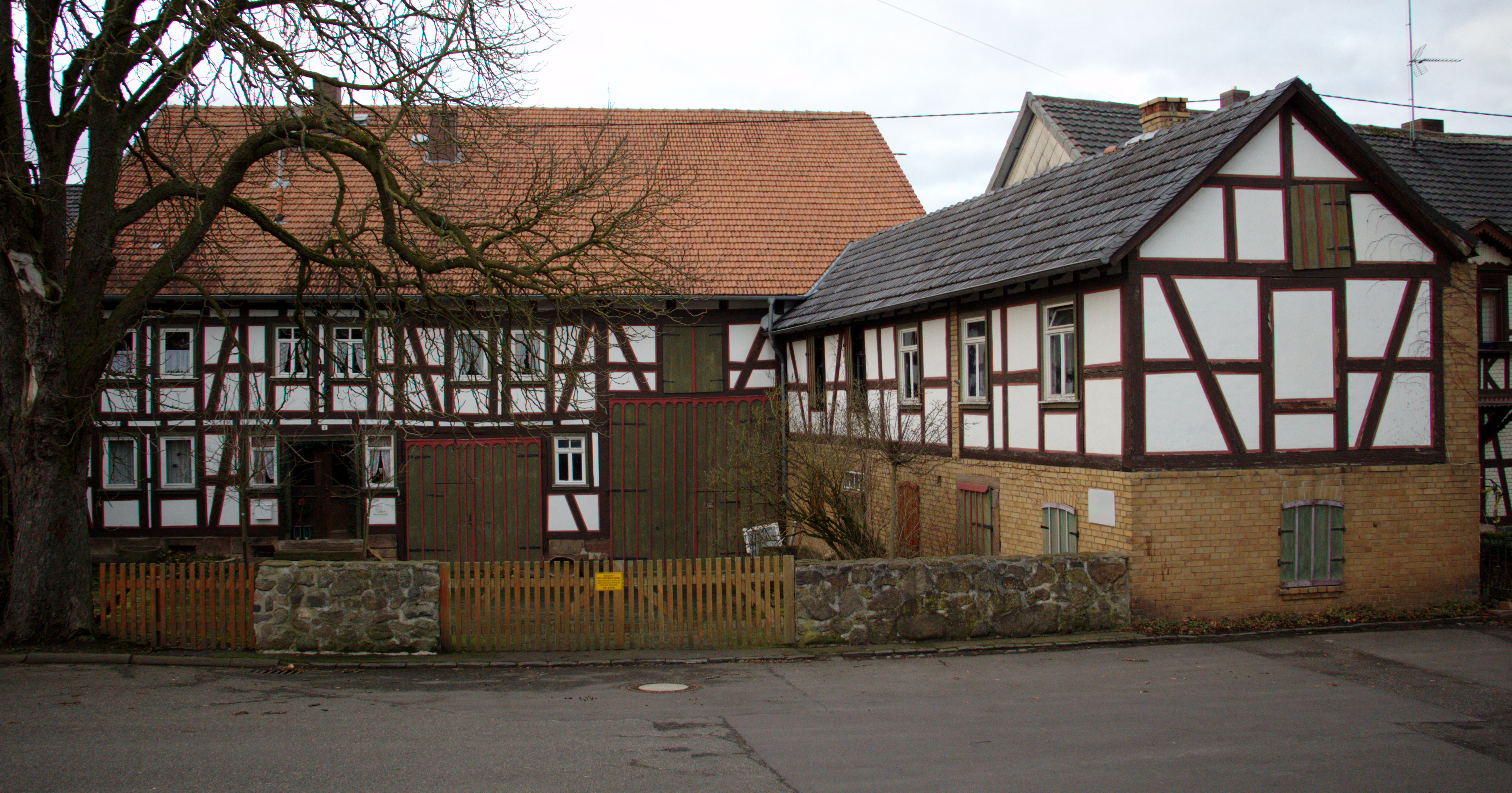 Half-timbered house in Vadenrod Atzeltrift 2, Schwalmtal, Hesse, Germany